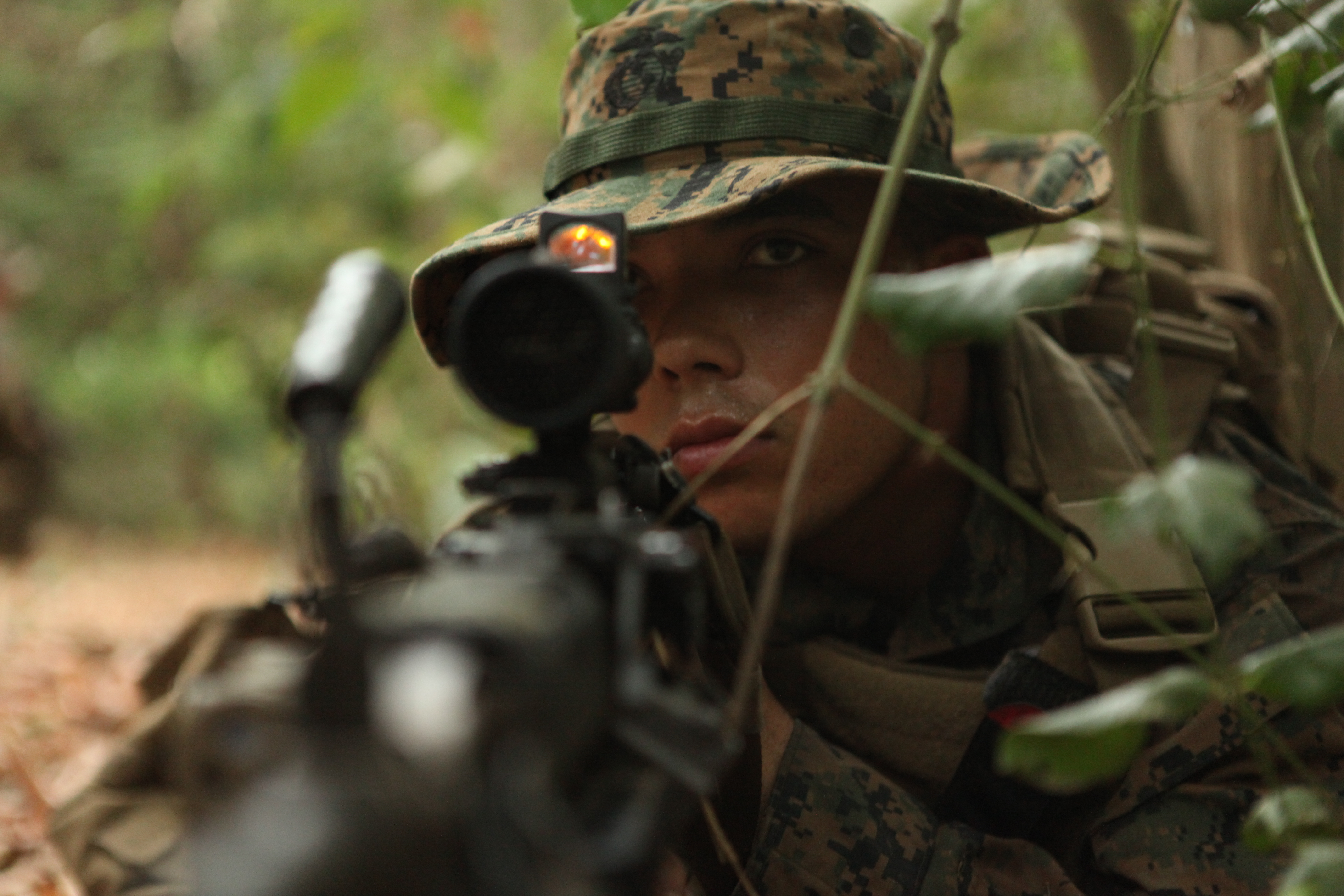 February 15, 2011, A U.S. Marine with Company E, Battalion Landing Team (BLT), 2nd Battalion, 5th Marine Regiment, 31st Marine Expeditionary Unit (MEU), 3rd Marine Expeditionary Brigade (MEB), sights in with his weapon during a patrol through the jungle in Recon Camp, Kingdom of Thailand, in support of Exercise Cobra Gold 2011. For three decades, Thailand has hosted Cobra Gold, one of the largest land-based, joint, combined military training exercises in the world. A successful Cobra Gold 2011 results in increased operational readiness of U.S. and Thai forces and matured military to military relations between the two countries.